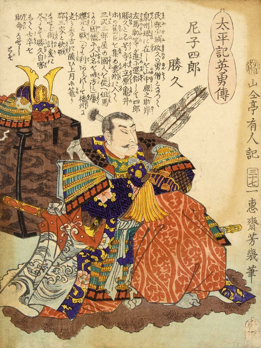 An ukiyo-e of Amago Katsuhisa.